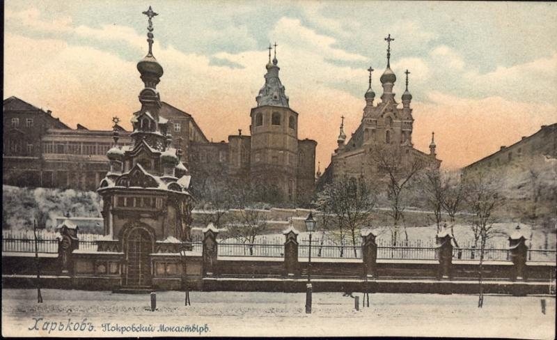 Pokrovsky Monastery in Kharkov in winter. Original Russian Empire paper postcard